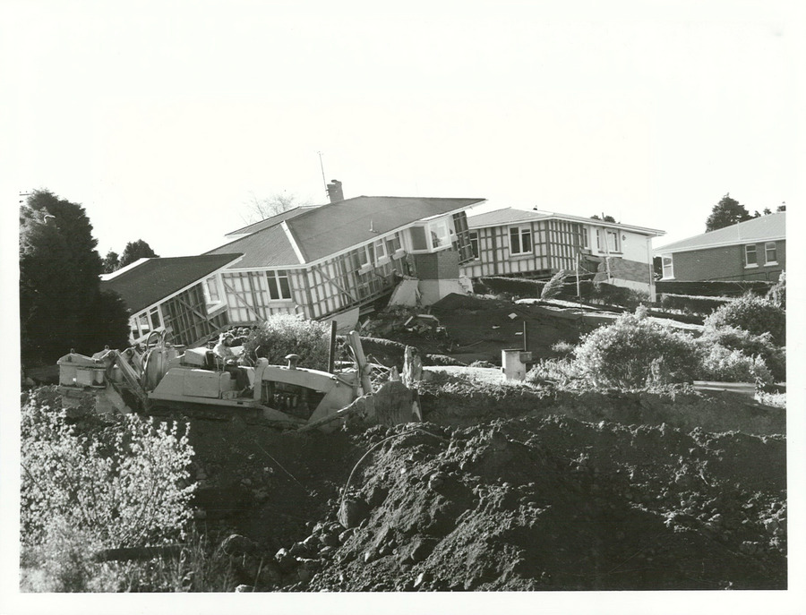 Abbotsford Disaster, 1979